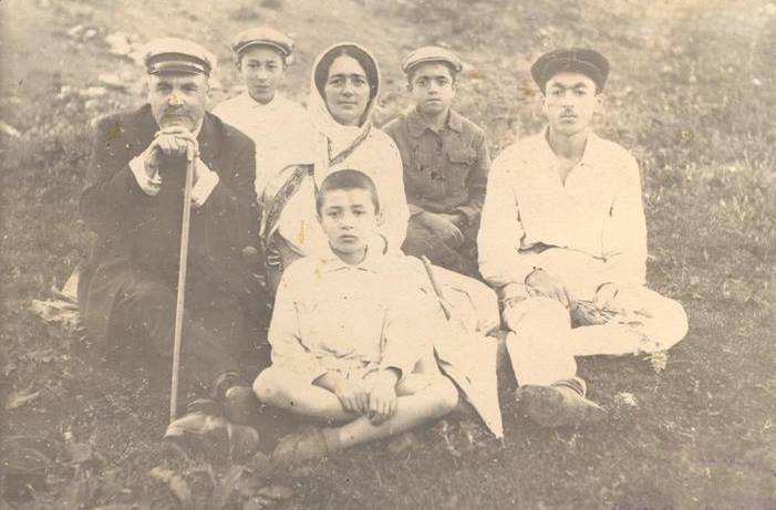 Hamida Javanshir and Jalil Mammadquluzade